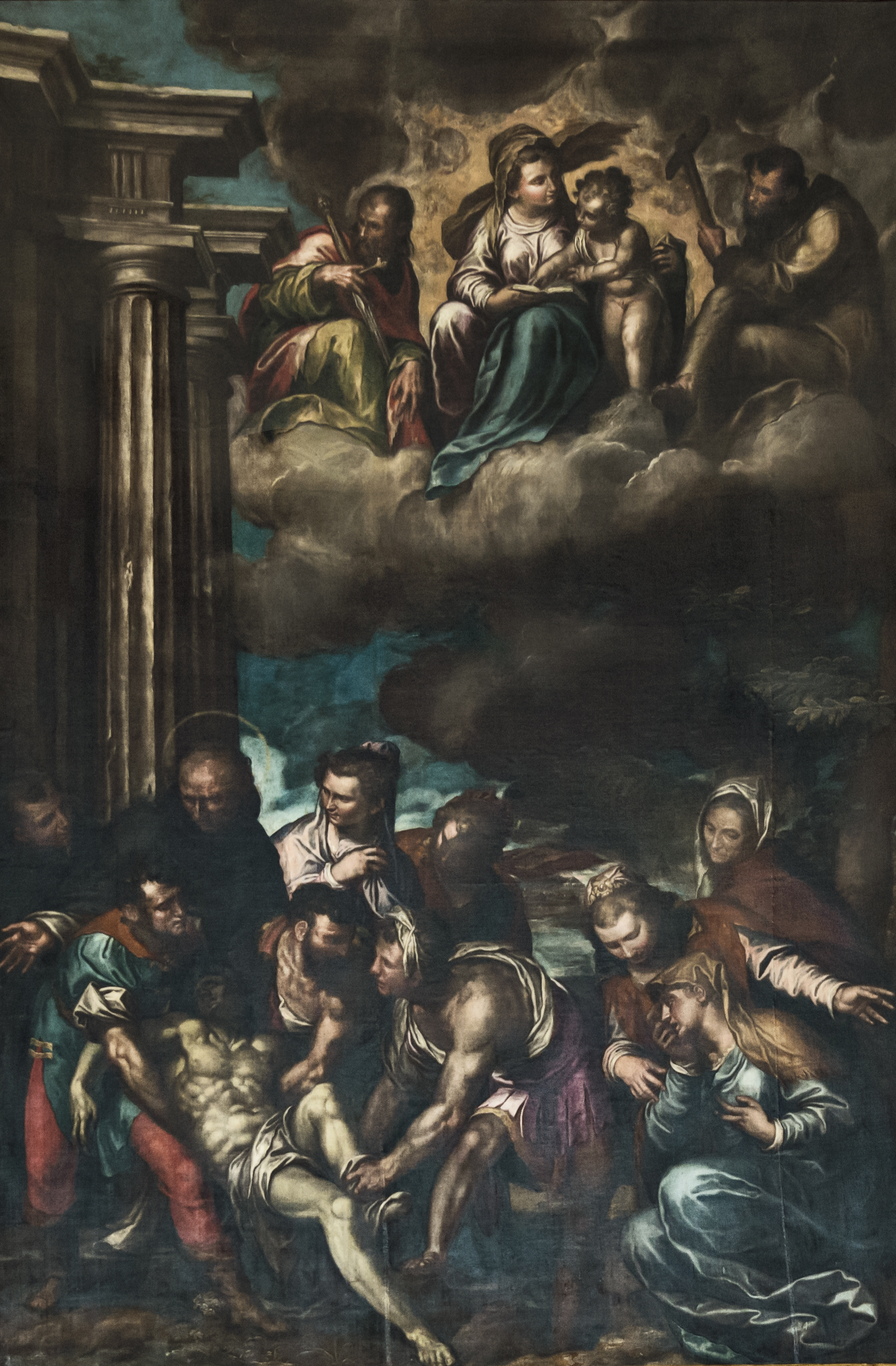 Basilica Santa Anastasia. The left side of the transept, the painting by Paolo Farinati representing The descent from the cross.